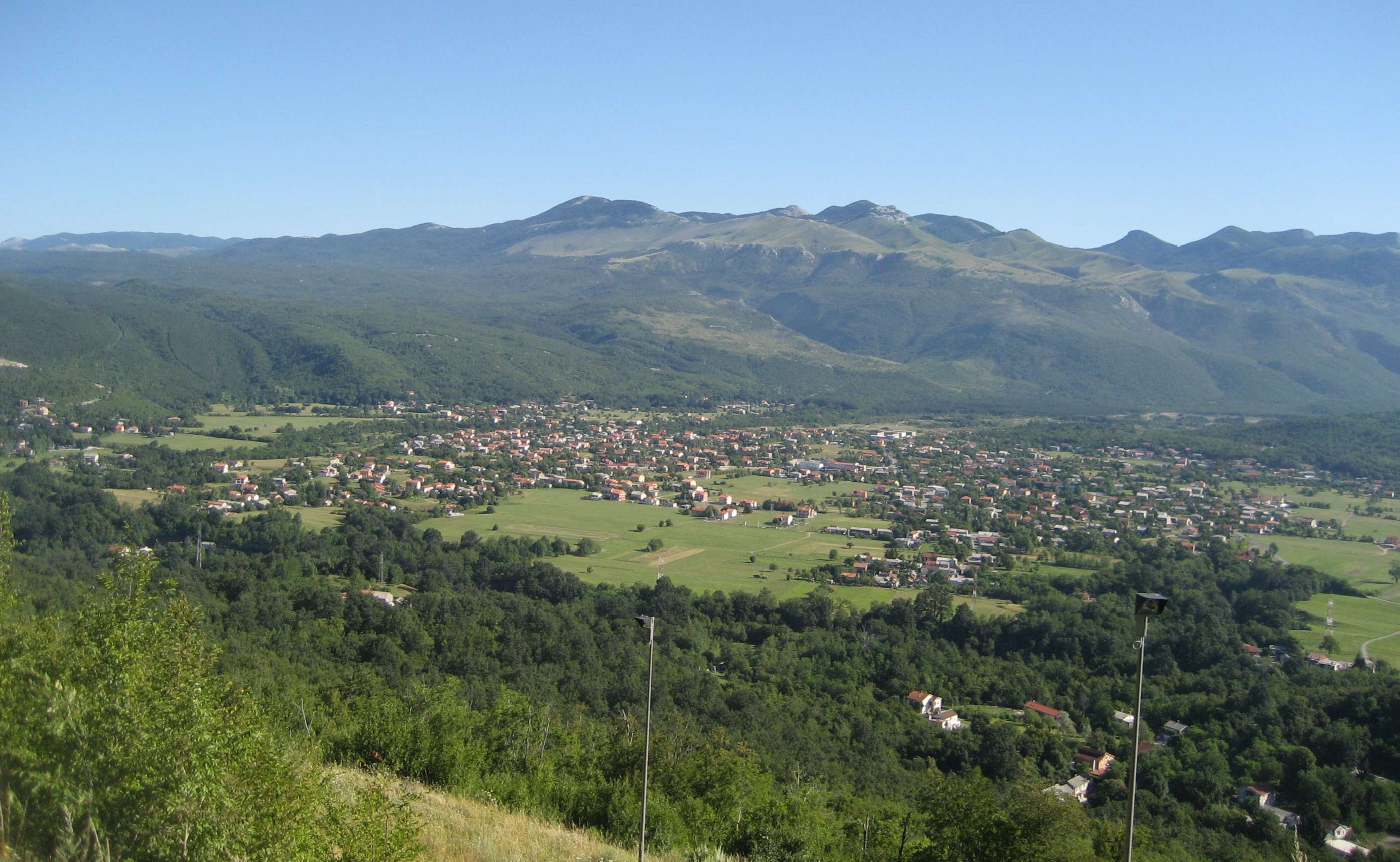 Grobnicko polje and town, karst plain ca. 6km north of Rijeka in Croatia